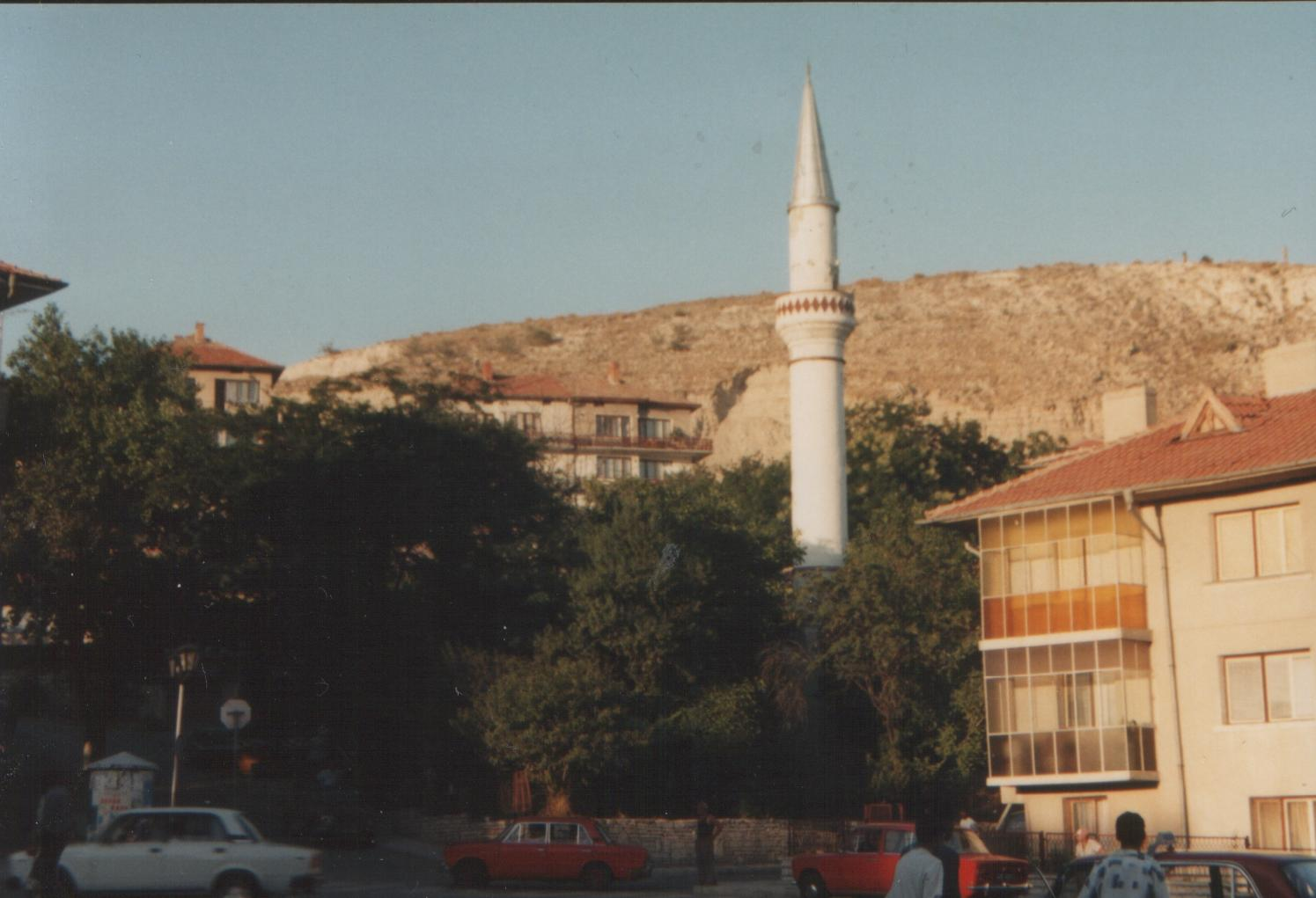 Minaret in North East Bulgarian city of Balchik 1995